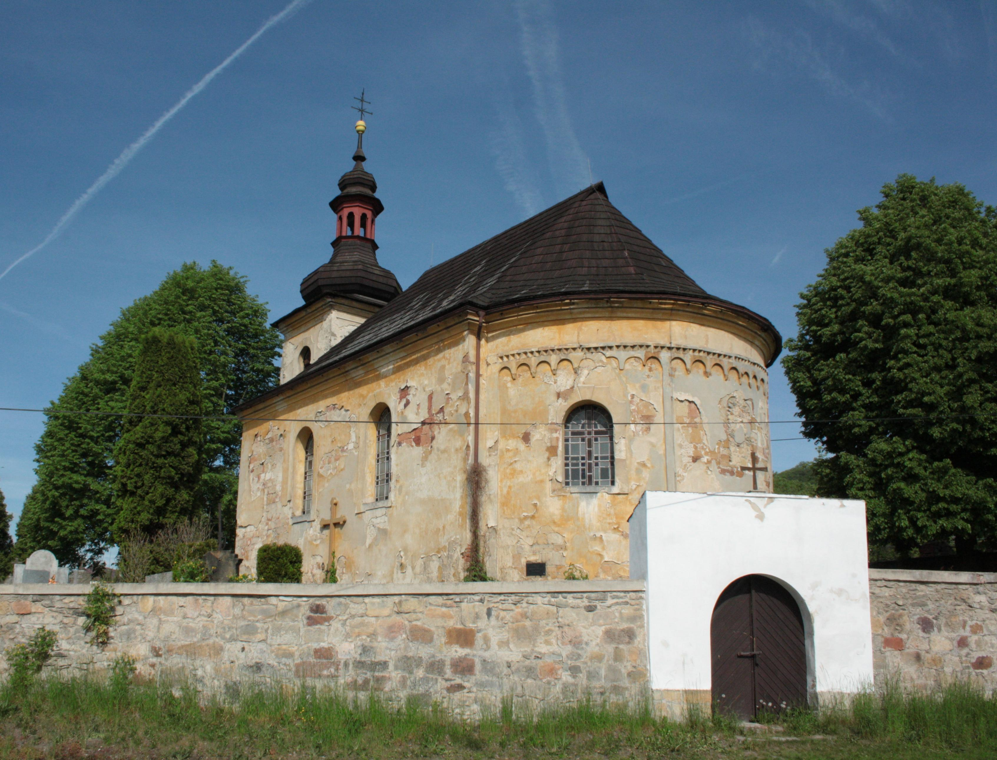 Bezděz, Česká Lípa District, Liberec Region, Czech Republic This photograph was taken with a DSLR from WMCZ's Camera grant. Project: Fotíme Česko